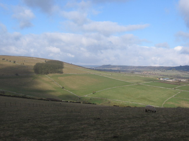 View over Coombs Dale to Highfields Farm. This shows typical upland sheep pasture on the slopes of Longstone Edge above Stoney Middleton